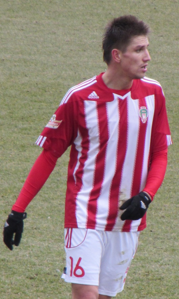 Lukáš Bodeček of FK Viktoria Žižkov during a match against FK Baník Sokolov